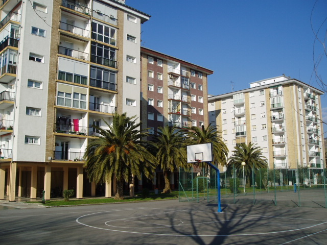 Itxasmedi district in Zarautz (Gipuzkoa).